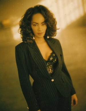 A more introspective creative direction during 'Affairs of the Heart.